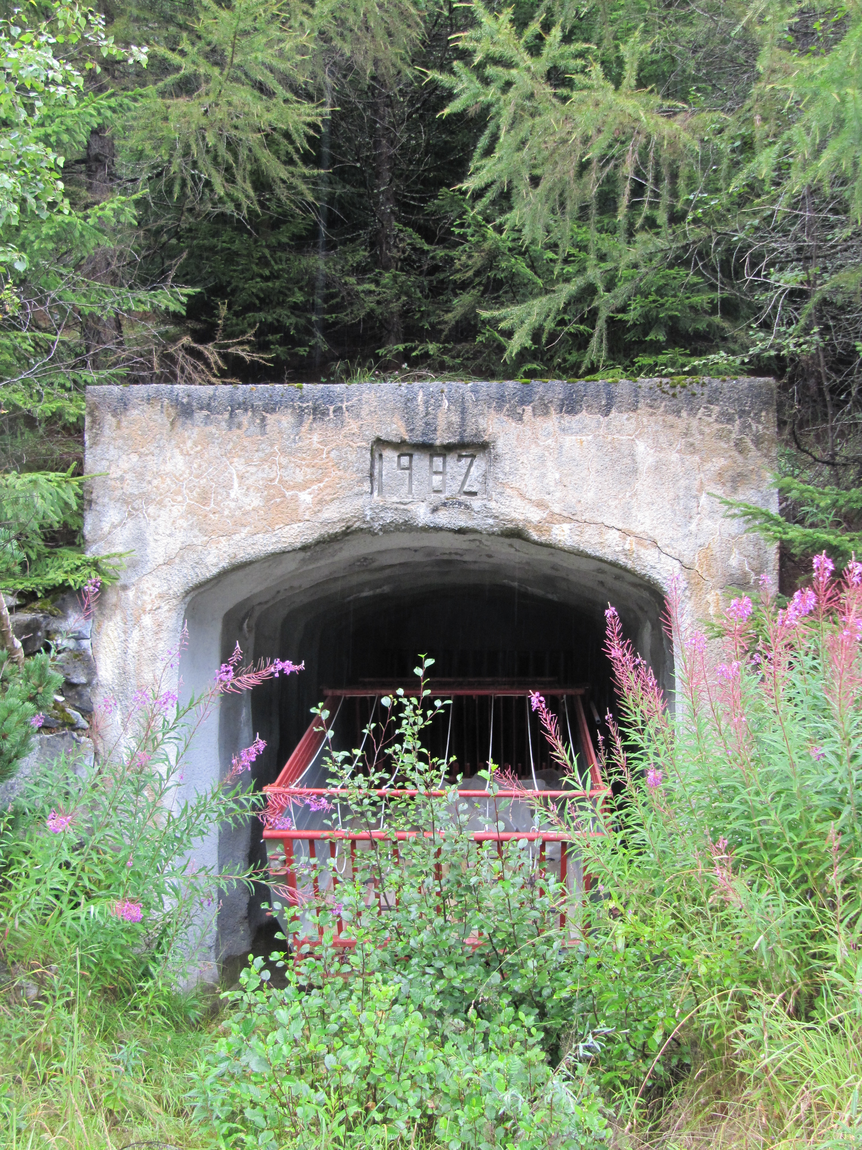 Entrance of the "Bedretto Window" Tunnel